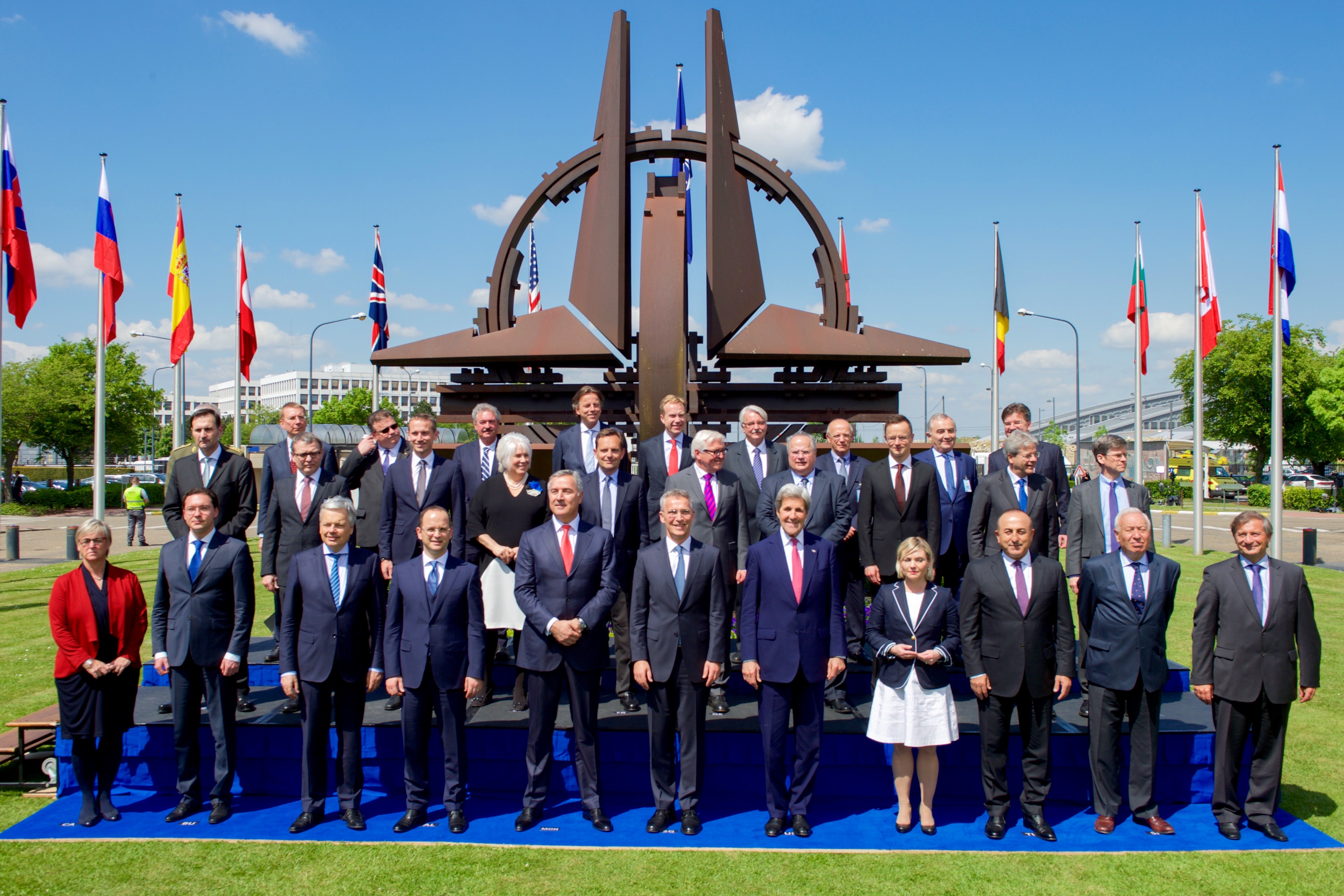 U.S. Secretary of State John Kerry poses with Montenegrin Prime Minister Milo Djukanovic, NATO Secretary-General Jens Stoltenberg, and his colleagues on the front lawn of NATO Headquarters in Brussels, Belgium, after he joined them in signing an Accession Protocol to continue Montenegro's admission to the North American Treaty Organization amid the biannual Foreign Ministerial Meetings on May 19, 2016. [State Department photo/ Public Domain]